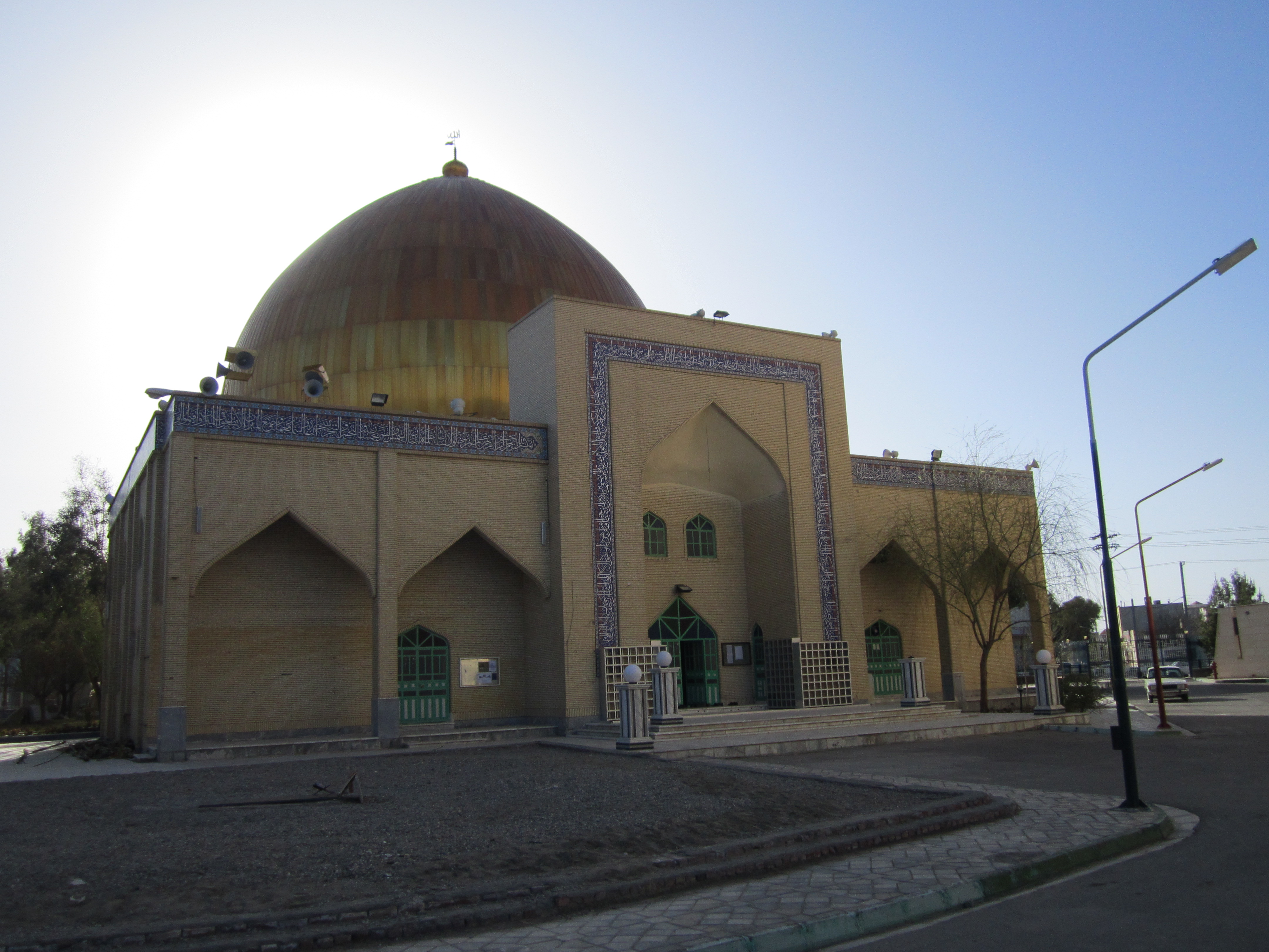 مسجد دانشگاه سیستان و بلوچستان